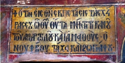 Saint Apostles Church in Kastoria Fresco, Onufri Argites, 1547